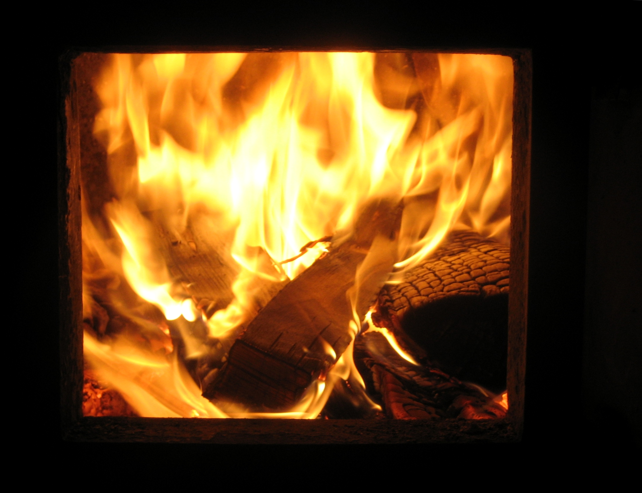 Fire in kiuas, a specialized Finnish stove used to heat a sauna to temperatures of over 80°C (176°F).